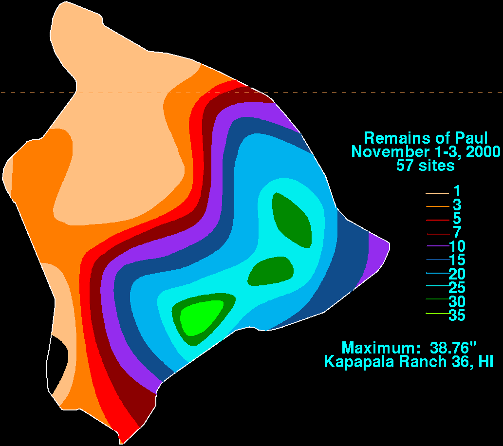 Storm total rainfall map of Tropical Storm Paul and its remnants during November 2000.